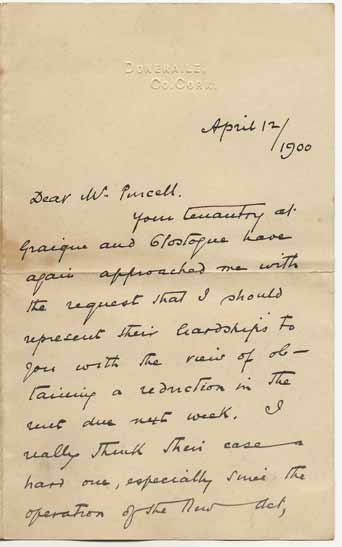 An example of Canon Sheehan's handwriting from the archive of Burton Park.